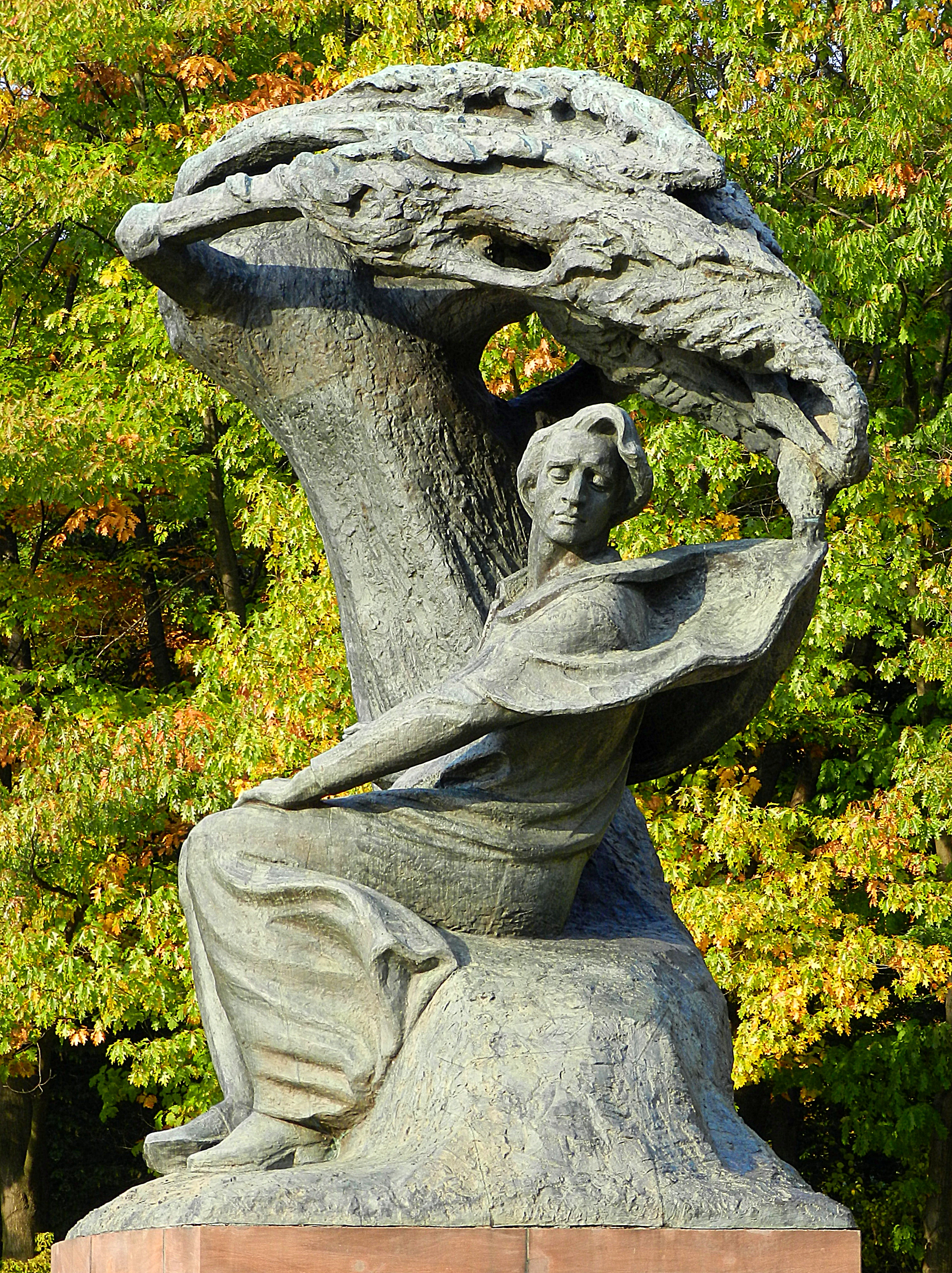 Frédéric Chopin statue in Royal Baths (Łazienki Królewskie) Park in Warsaw